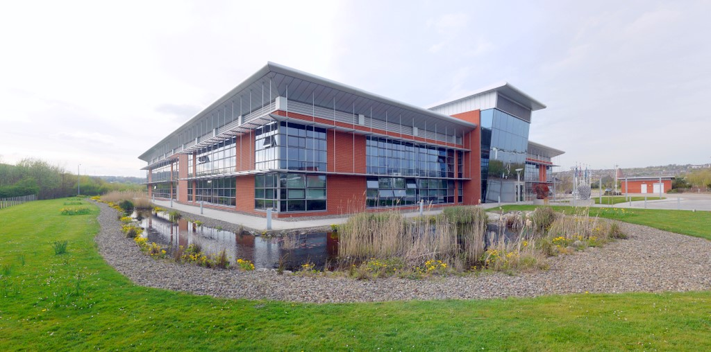 Stella House, Newburn Riverside, near to Blaydon, Gateshead, Great Britain. Stella House is the headquarters of One North East, a regional development agency. Some of our money has been spent on contemporary art in the courtyard and at the entrance NZ1863 : 'Generation' by Joseph Hillier . Very nice but not many people see it here.